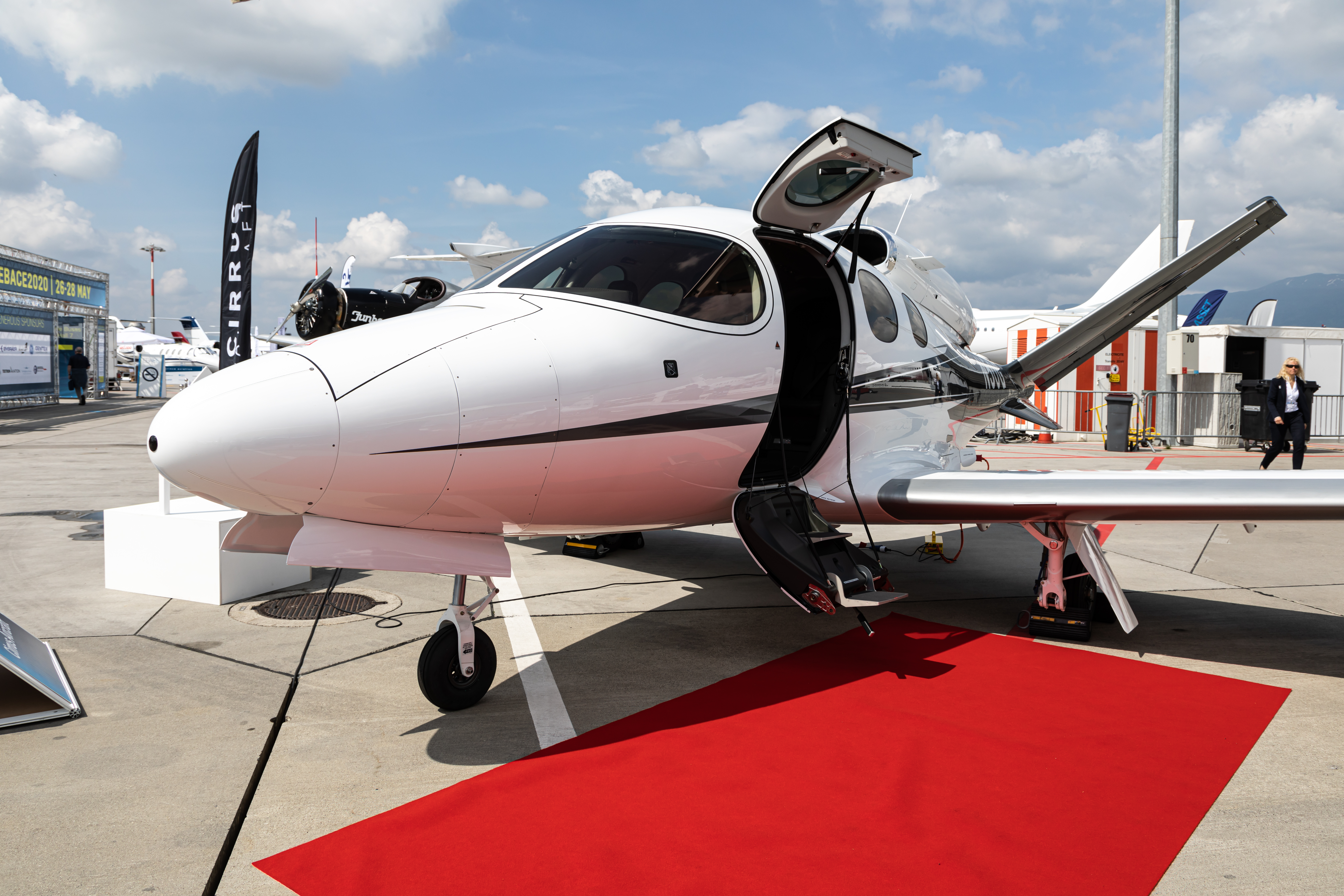 Cirrus Vision Jet at EBACE 2019, Palexpo, Switzerland